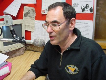 Photo of Marv Goldberg as a disc jockey